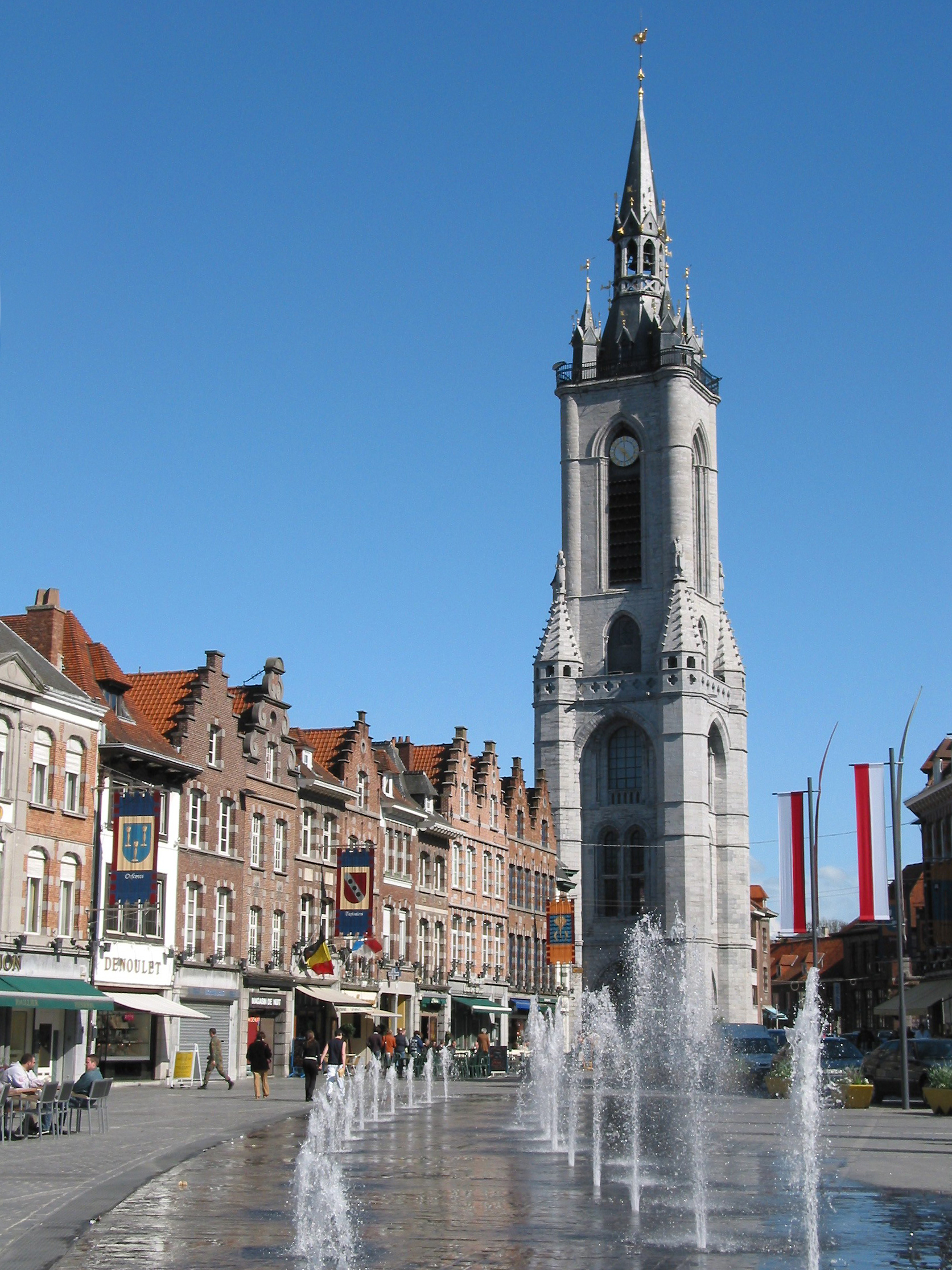 Tournai (Belgium), the oldest belfry of Belgium (XIIIth century).